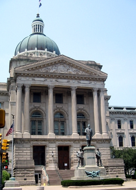 Photo Taken by Author (2005)